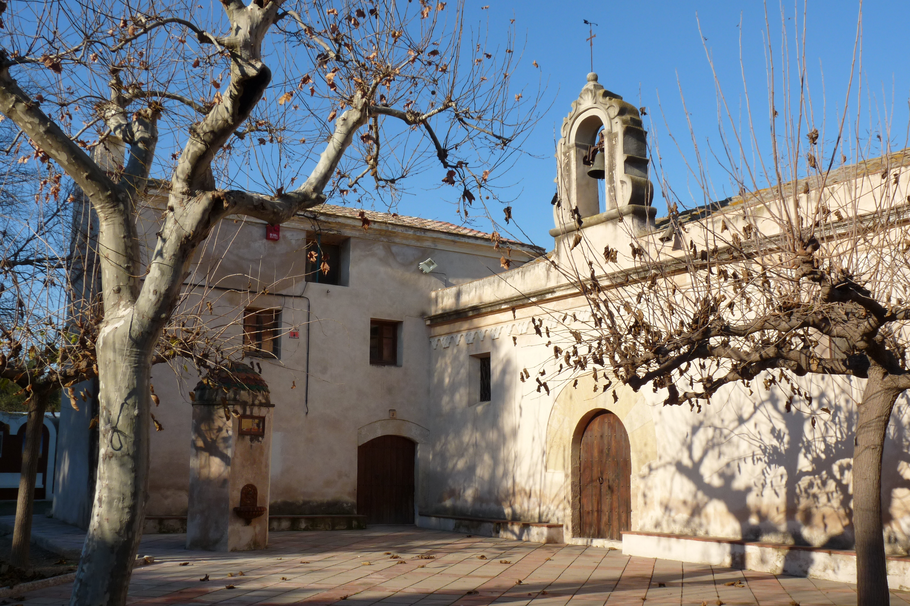 Hermitage of Our Lady of the Rosary.